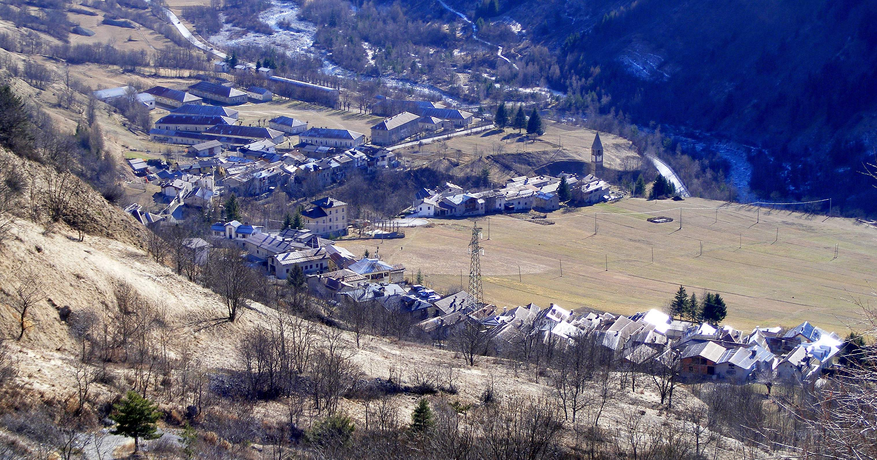 Sambuco (CN, Italy): panorama from borgata Serre